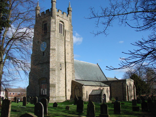 St Edmund's parish church, Sedgefield, County Durham, seen from the southwest